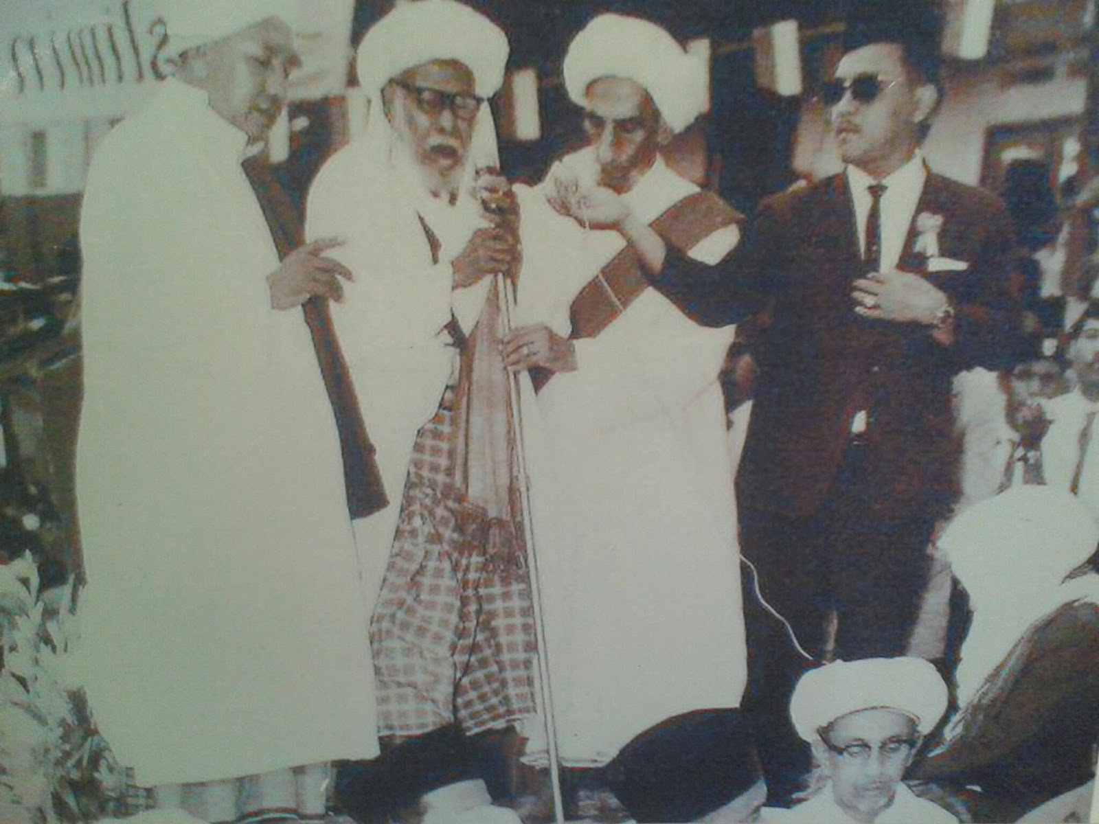 (from left to right) Habib Muhammad bin Ali al-Habsyi, Habib Ali bin Abdurrahman al-Habsyi, Habib Ali bin Husein al-Attas, and Habib Hussein bin Muhammad Shihab While attending the event of the Prophet's mawlid in Kwitang circa 1950.